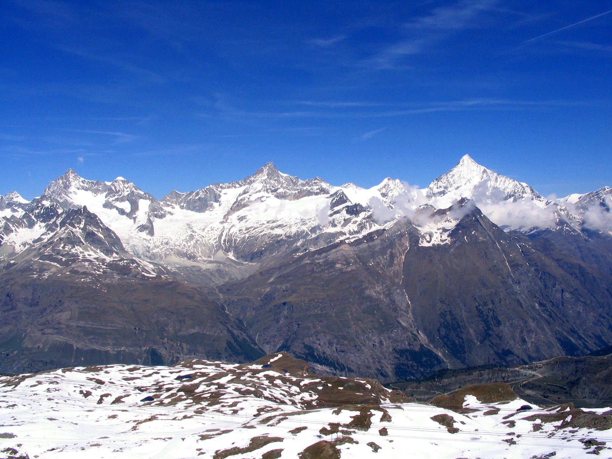 Dent Blanche (4.357 m), Ober Gabelhorn (4.063 m), Zinalrothorn (4.221 m) and Weisshorn (4.505 m) (Walliser Alps), view from Gornergrat